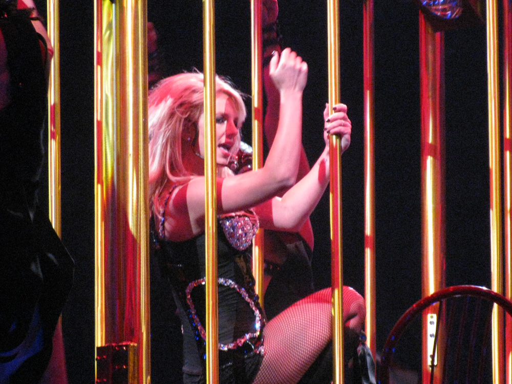 Spears performing piece of me